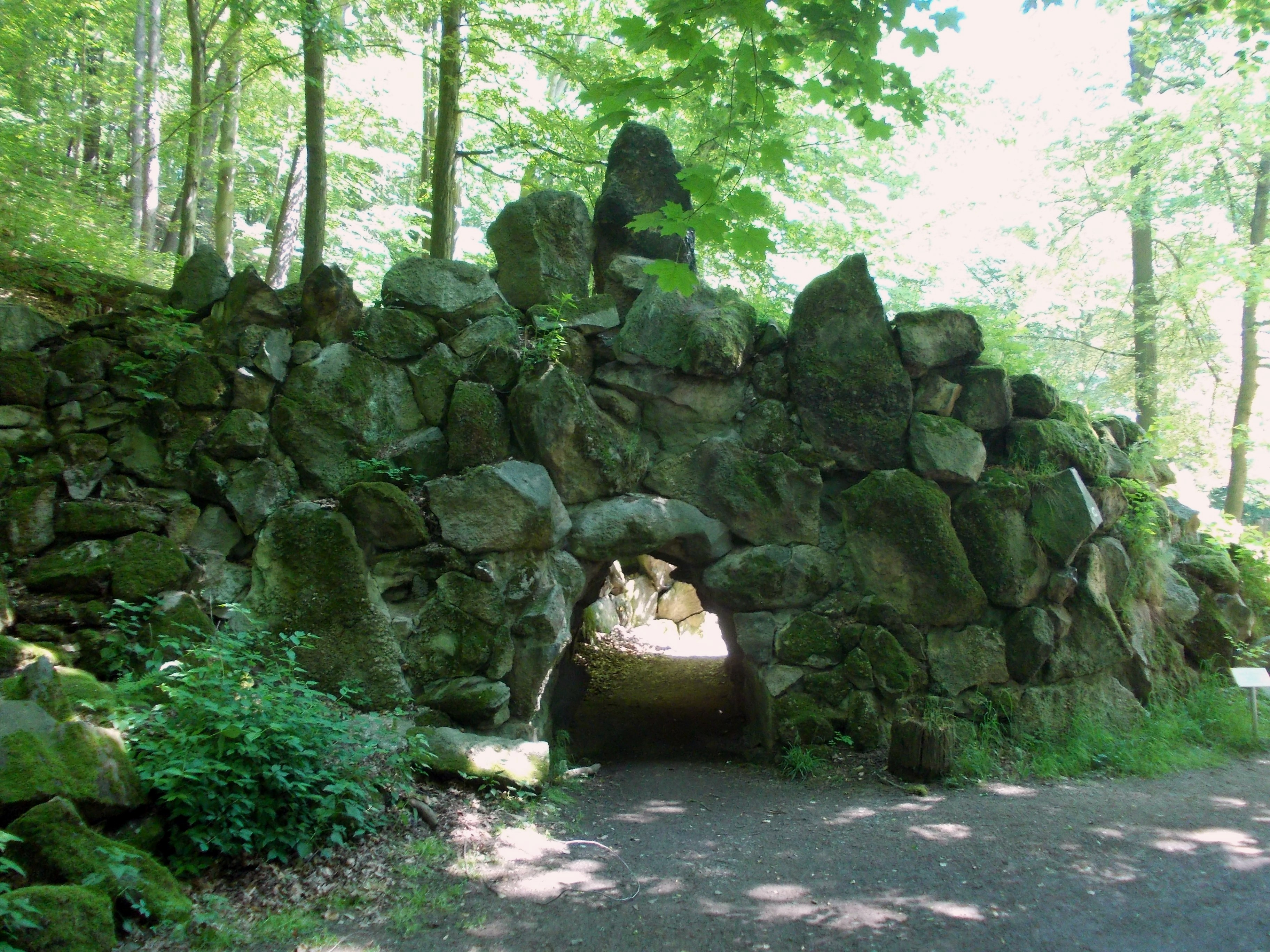 Passage in the rocks in Grünfeld Park (Waldenburg, Zwickau district, Saxony)